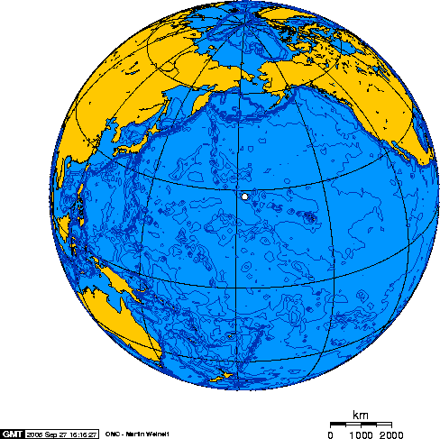 Orthographic projection centred over Midway